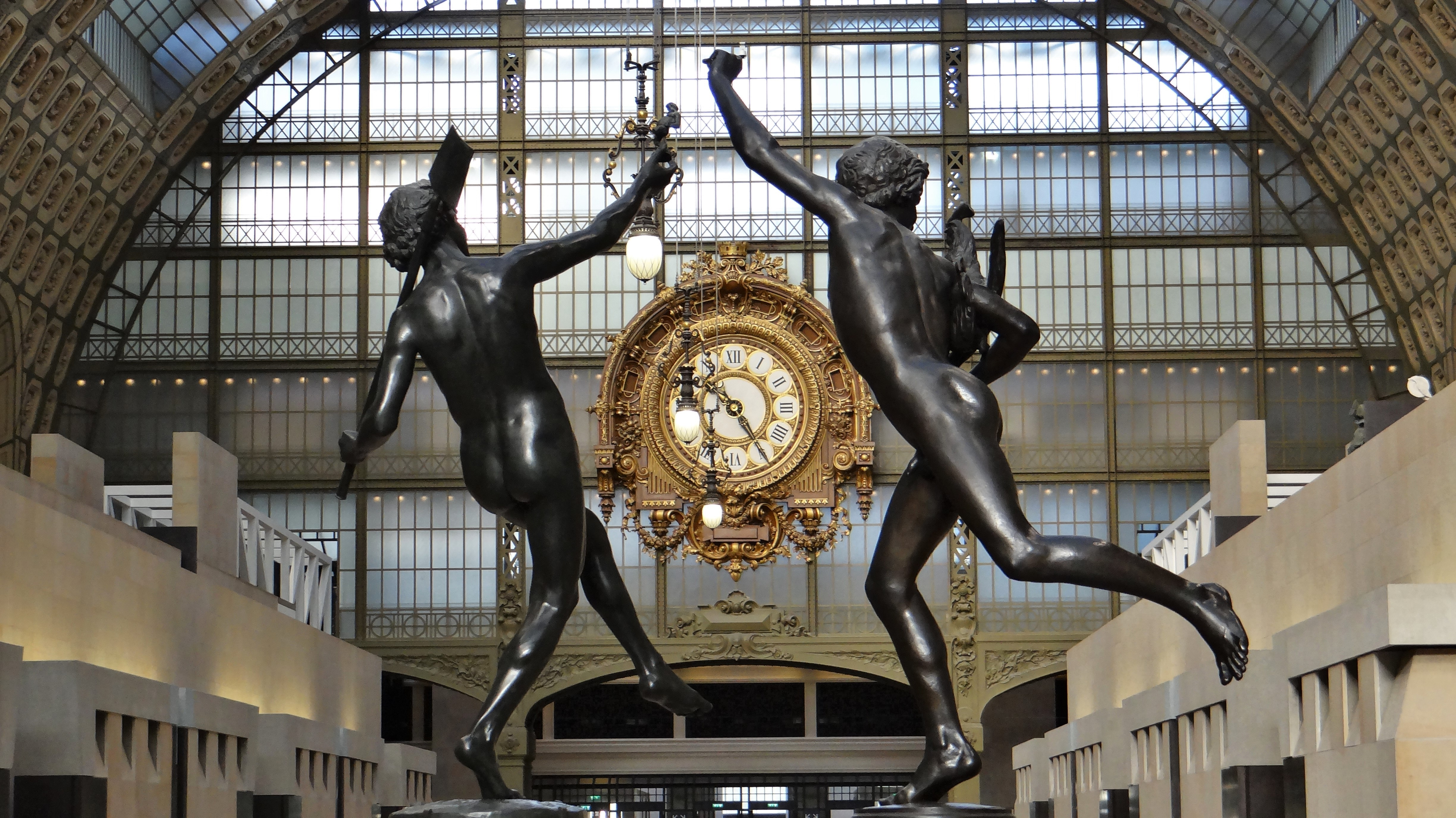 Main gallery of the Musée d'Orsay with large interior clock surrounded on the left by Hippolyte Moulin's statue "A Lucky Find at Pompeii", 1863 (bronze cast by Jacquier) and on the right by Alexandre Falguière's statue "Winner of the Cock Fight" (bronze cast by Thiébaut after the plaster executed in Rome in 1862), 1864 .